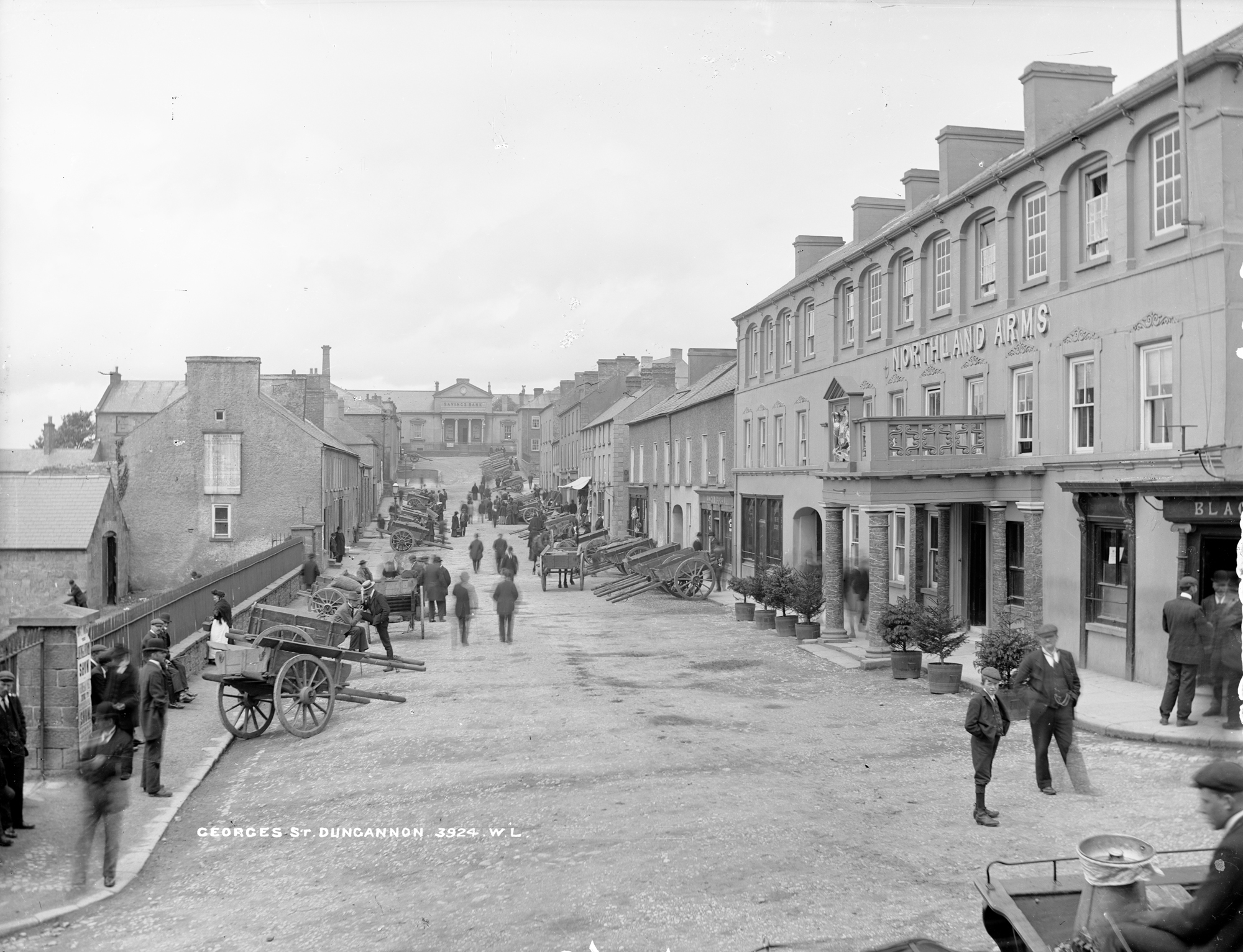 An interesting photo and another of our stream selected by Flickr Explore because of its interestingness . This selection does increase traffic to our stream. We find ourselves in County Tyrone, with a view down a very busy Georges Street, in contrast the modern street views show a street that is a shadow of the image we see from over 100 years ago, Thanks for all the comments - If you have the time I suggest that you read through them all. Photographer: Robert French Collection: The Lawrence Photograph Collection Date: 1880 - 1900 NLI Ref: L_ROY_03924 You can also view this image, and many thousands of others, on the NLI’s catalogue at